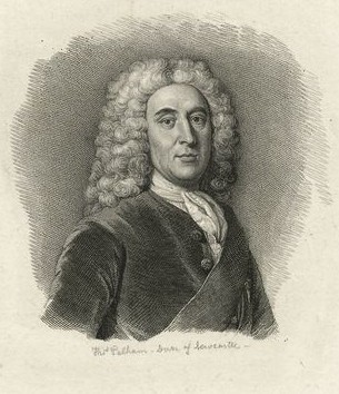 Thomas Pelham-Holles (1693-1768) british prime minister